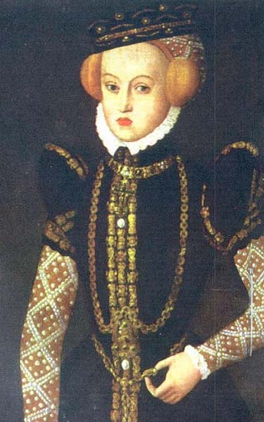 Eleonore of Austria (1534-1594)